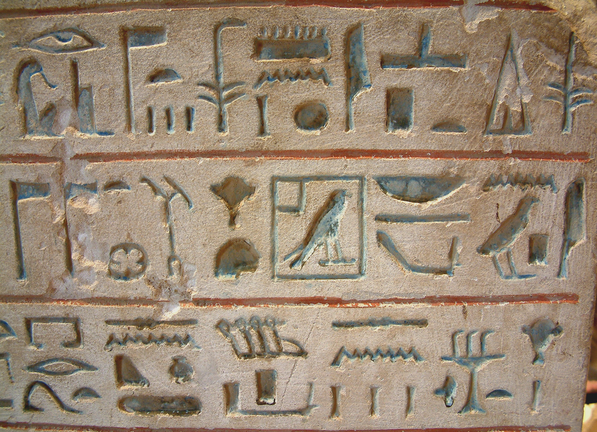 List of some hieroglyphs: (3-lines-(read into faces)(line 1-(right)-starts)) :#–3-strokes (plural); two-varieties, examples, lines 1 and 3 :#–Hotep, (plus a "p", and a "t" complements)(often found with the hotep hieroglyph)